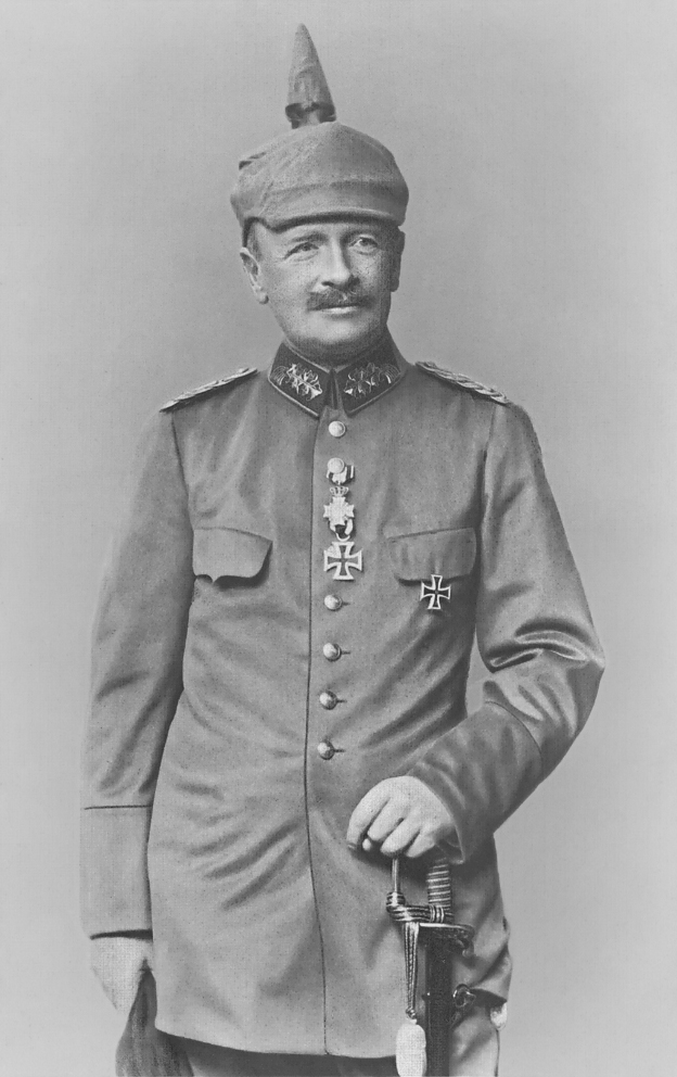 Frederick Augustus III (1865-1932) the last King of Saxony (1904-1918) ca. 1916